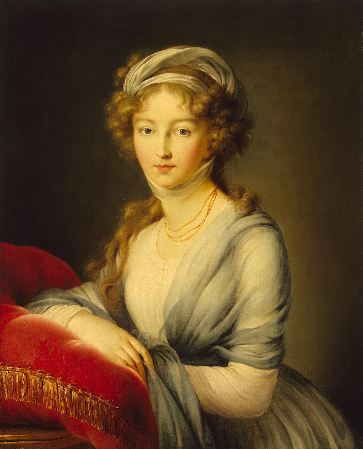 Portrait of Empress Elisabeth Alexeievna of Russia